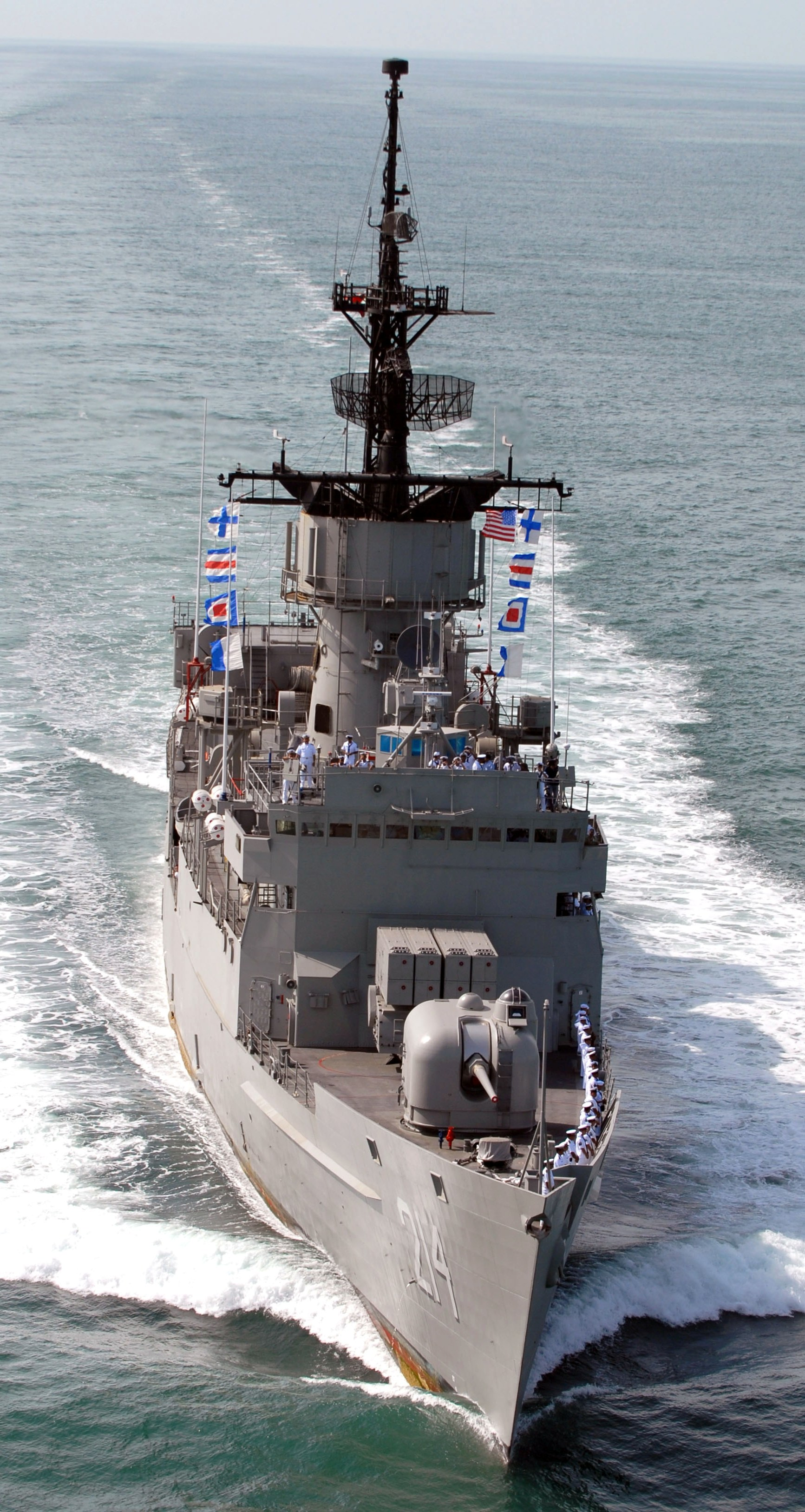 The Mexican ship Mina, F-214, XCWA, participating in Exercise Unitas Gold.